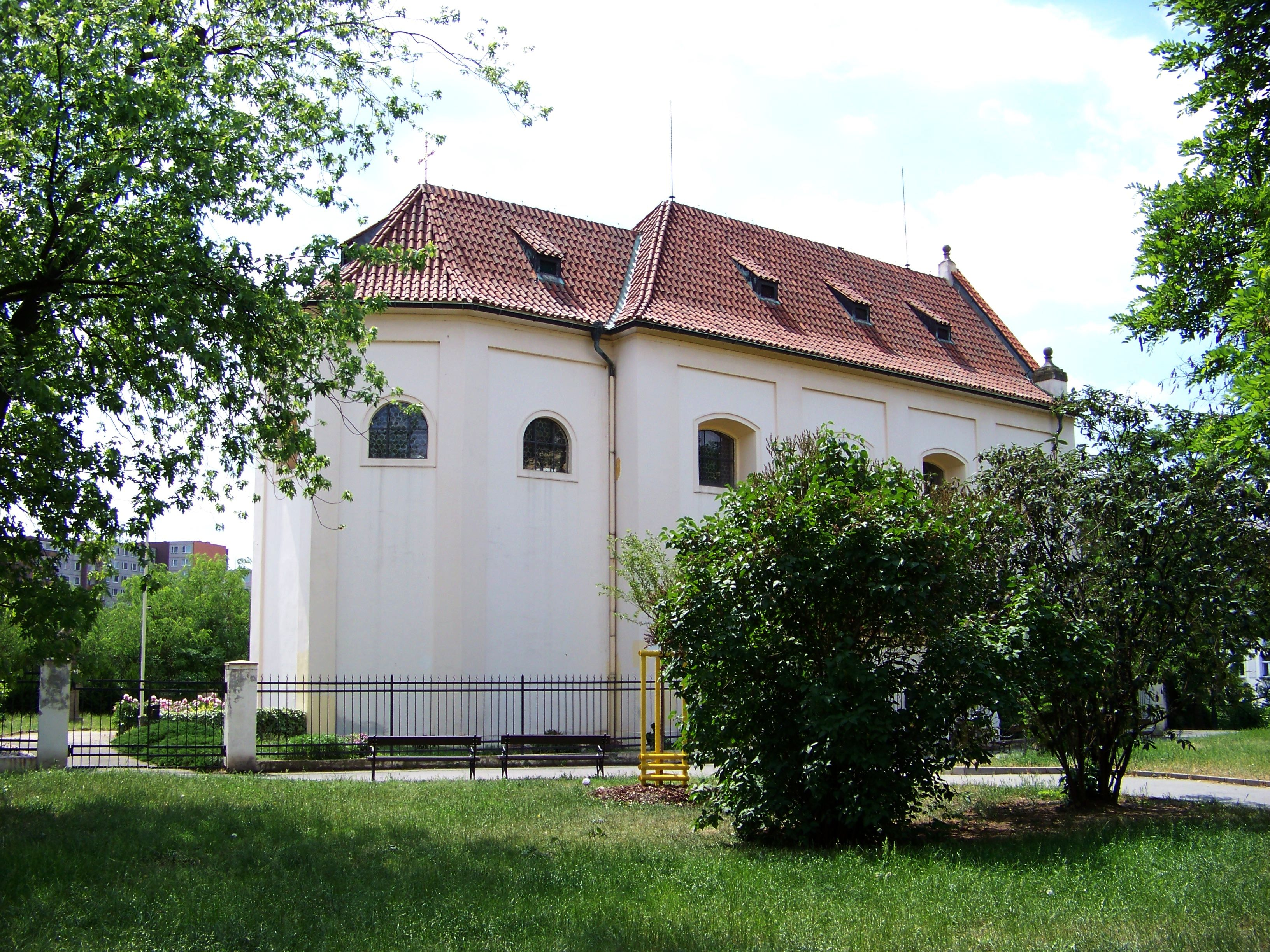 Prague-Nusle-Pankrác, the Czech Republic. Saint Pancratius church.